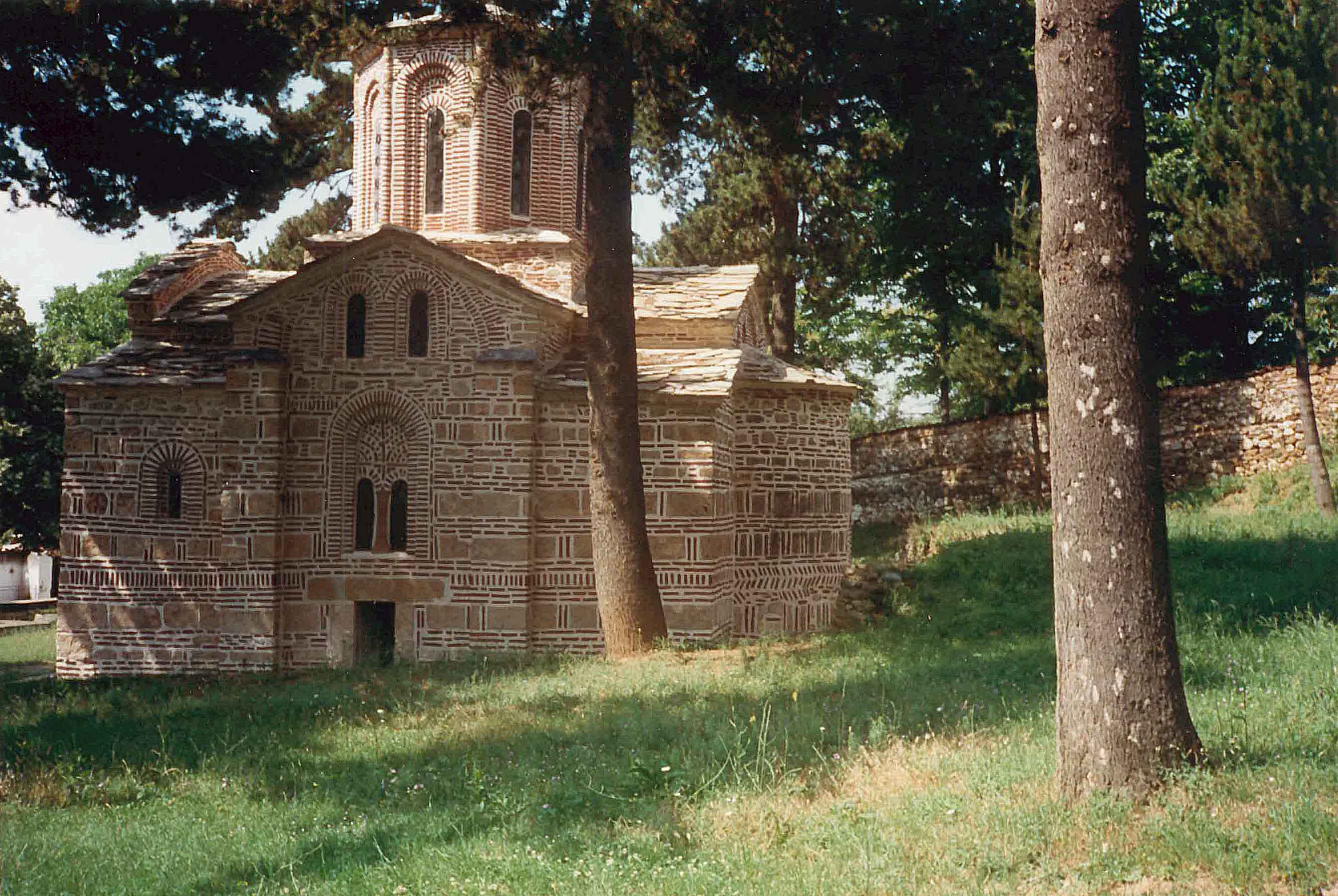 Muštište Church, Mušutište, Kosovo, before destruction in 1999.